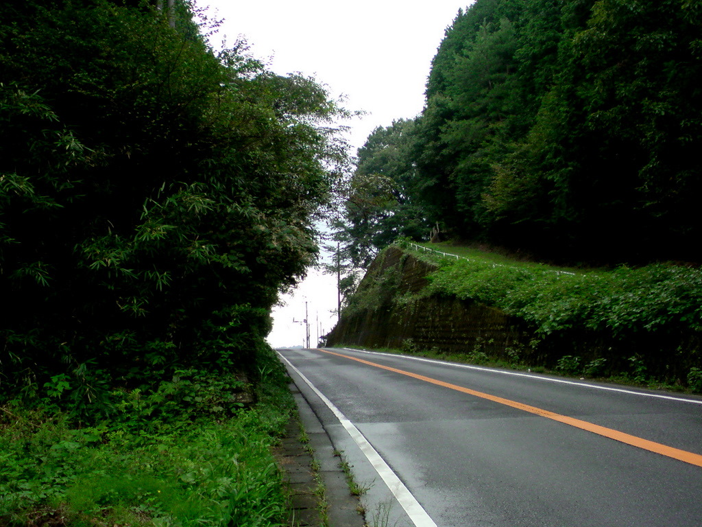 Sekido toge (Sekido Pass) in Uda City, Nara Prefecture, Japan